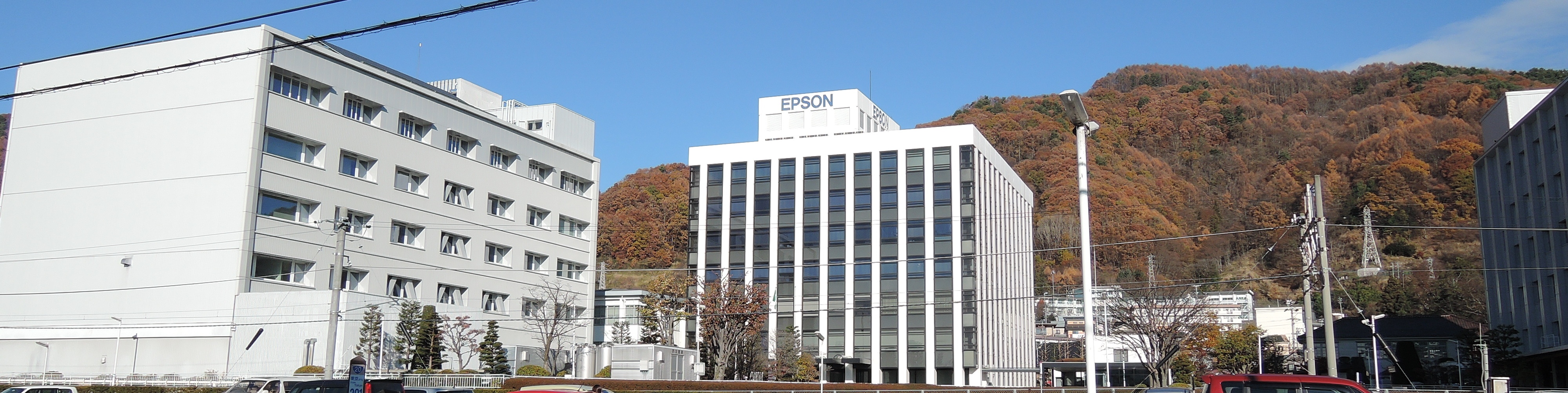 Headquarters of Seiko Epson Corporation,Nagano prefecture,Japan